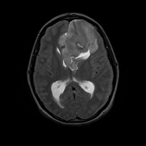 Magnetic resonance imaging of central neurocytoma. axial MRI. T2